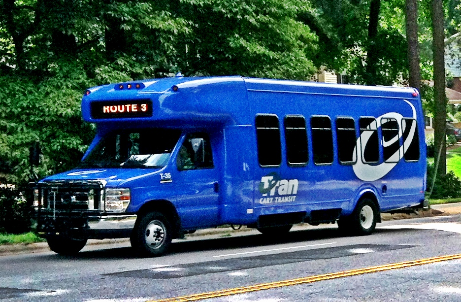 C-TRAN bus in Cary, NC